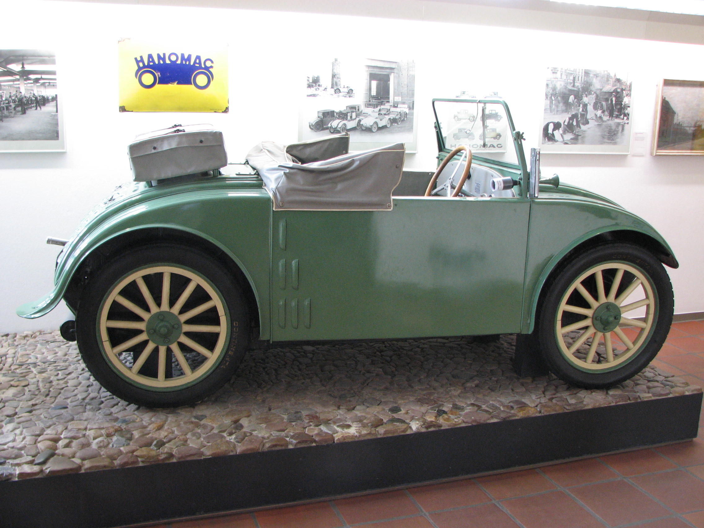 Hanomag "Komissbrot", Historical Museum of Hannover